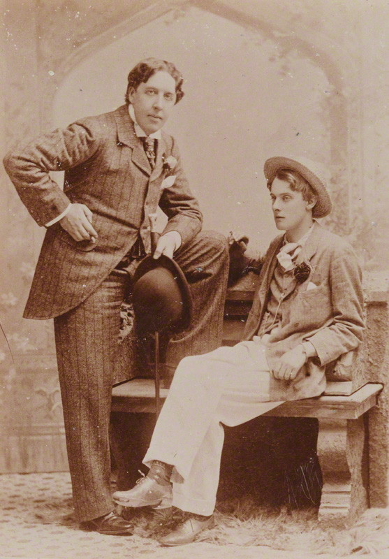 Oscar Wilde and Alfred Douglas by Gillman & Co, gelatin silver print, May 1893